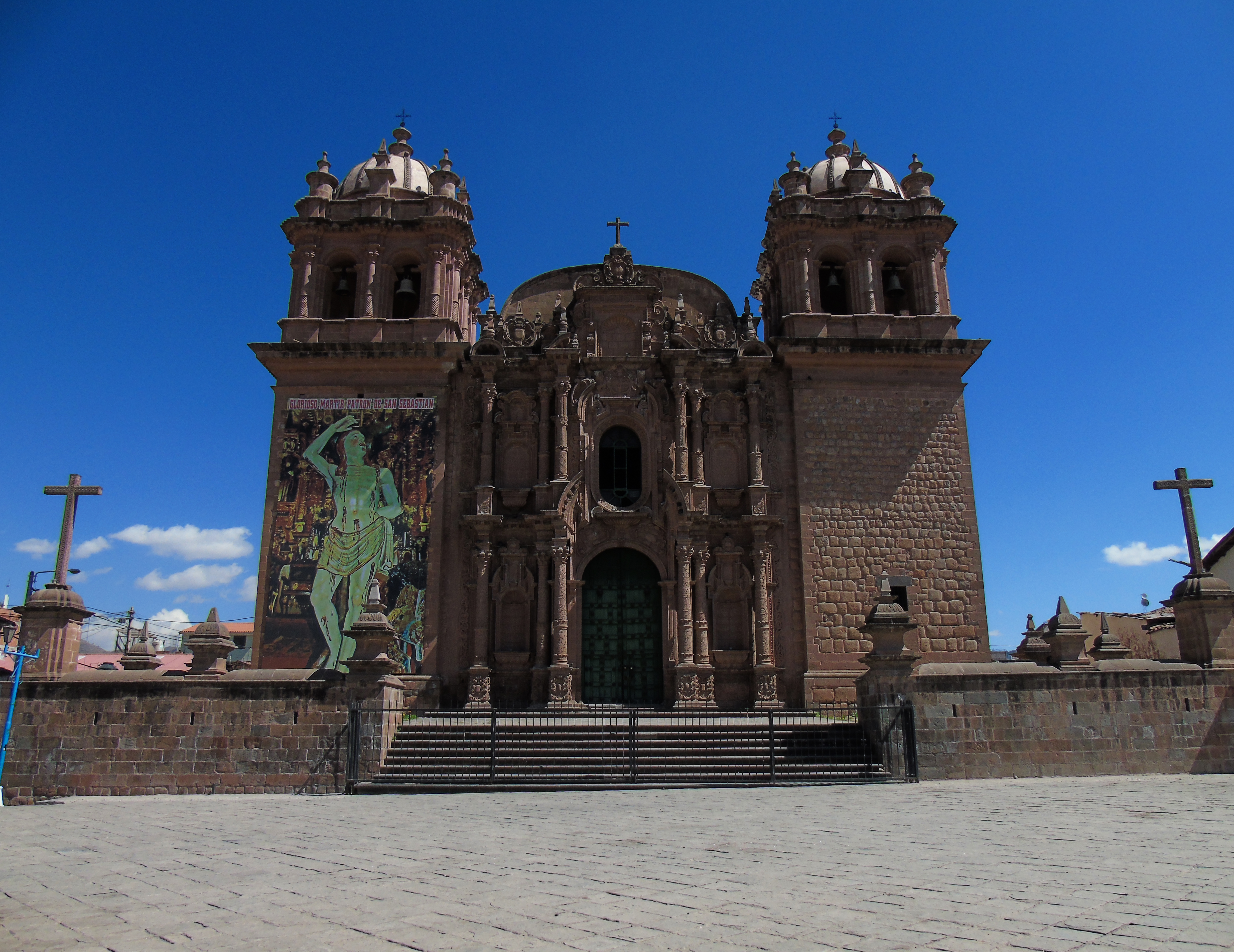 Church of San Sebastián - Cusco